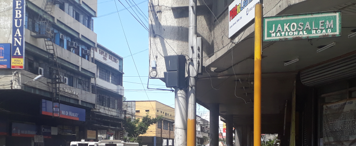 A picture of the Dionisio Jakosalem National Road, named in honor of former governor of Cebu and Secretary of Commerce and Communication.